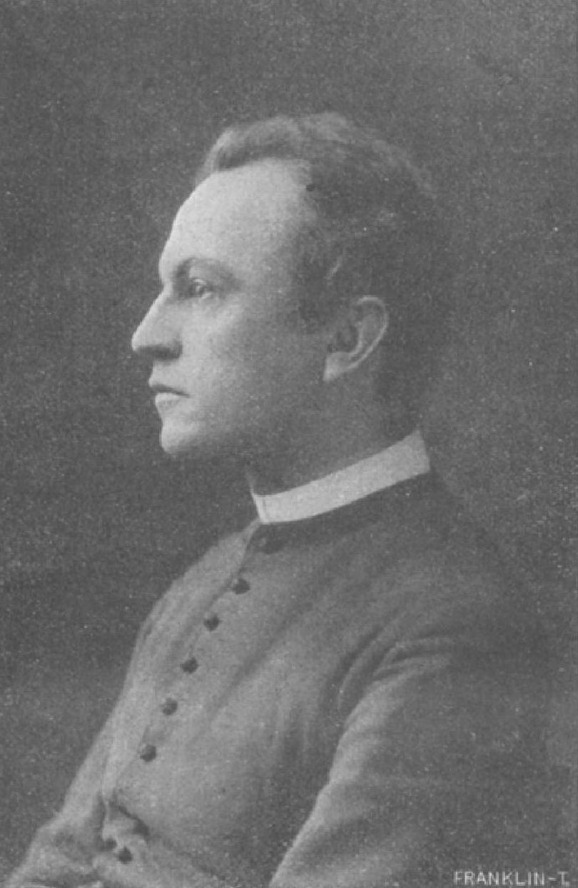 Ottokár Prohászka in 1905